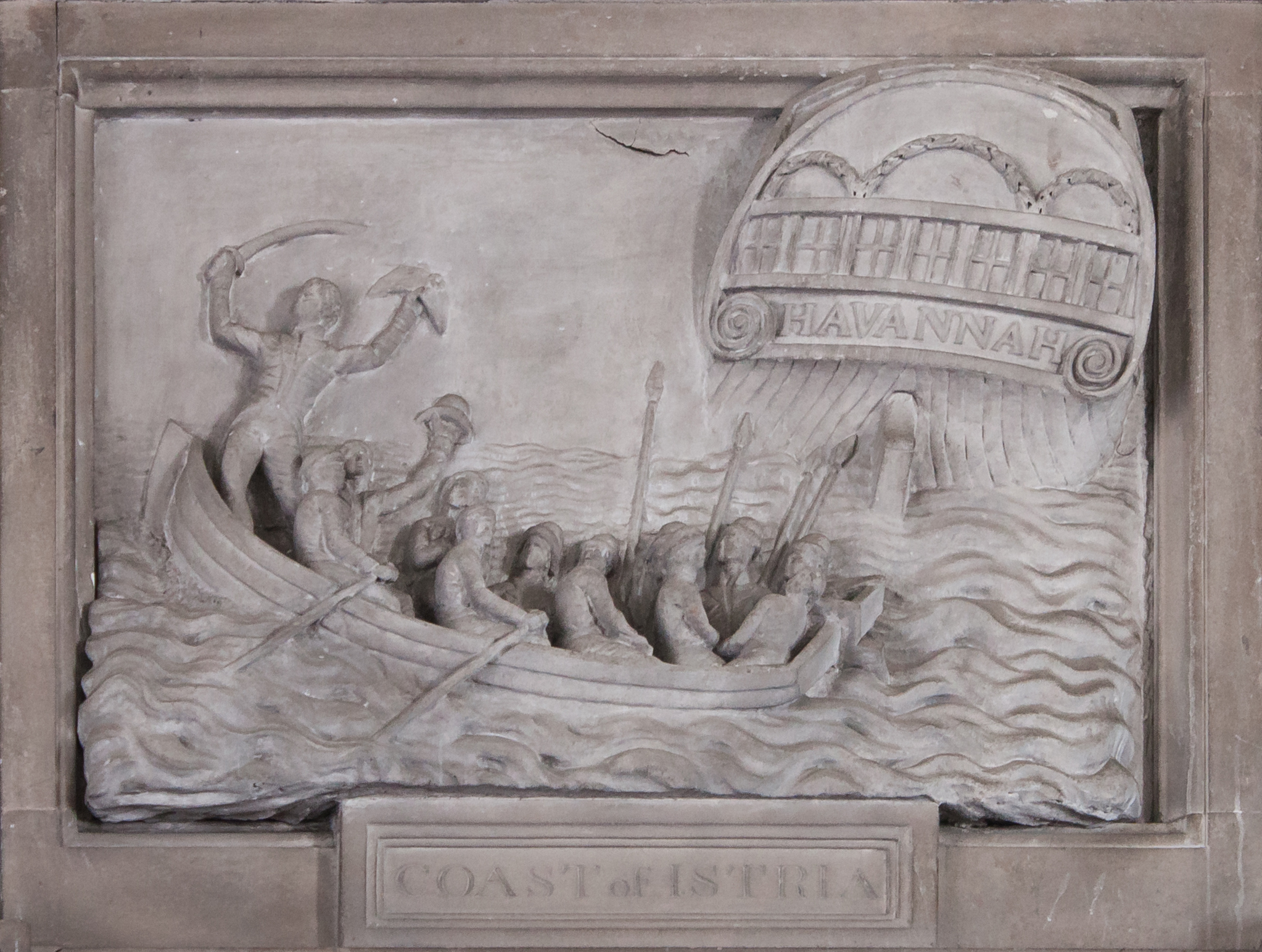 Relief of the memorial dedicated to Edward Percival. From the inscription below: Sacred to the Memory of Mt Edward Percival, Late Masters Mate in the Royal Navy Who Fell Gallantly fighting his Country's Cause In an attack upon an Enemy of far Superior Force, in a Boat belonging to his Majesties Frigate Havannah Captain Honble George Cadogan on the 6th January 1813 on the Coast of Istria in the Adriatic Aged 21 Years. His amiable Heart and Noble Disposition secured him the Esteem and Friendship of all who knew him. Whilst his Public Conduct ever Intitled him to the approbiation of those Officers with whom he served In testimony whereof The Captain and Officers of the Havannah have Caused this Monument to be Erected to his Memory as a Sincere Tribute to Departed Worth as well as of their admiration of the Heroic Manner in which He fell. Intered on Brioni.